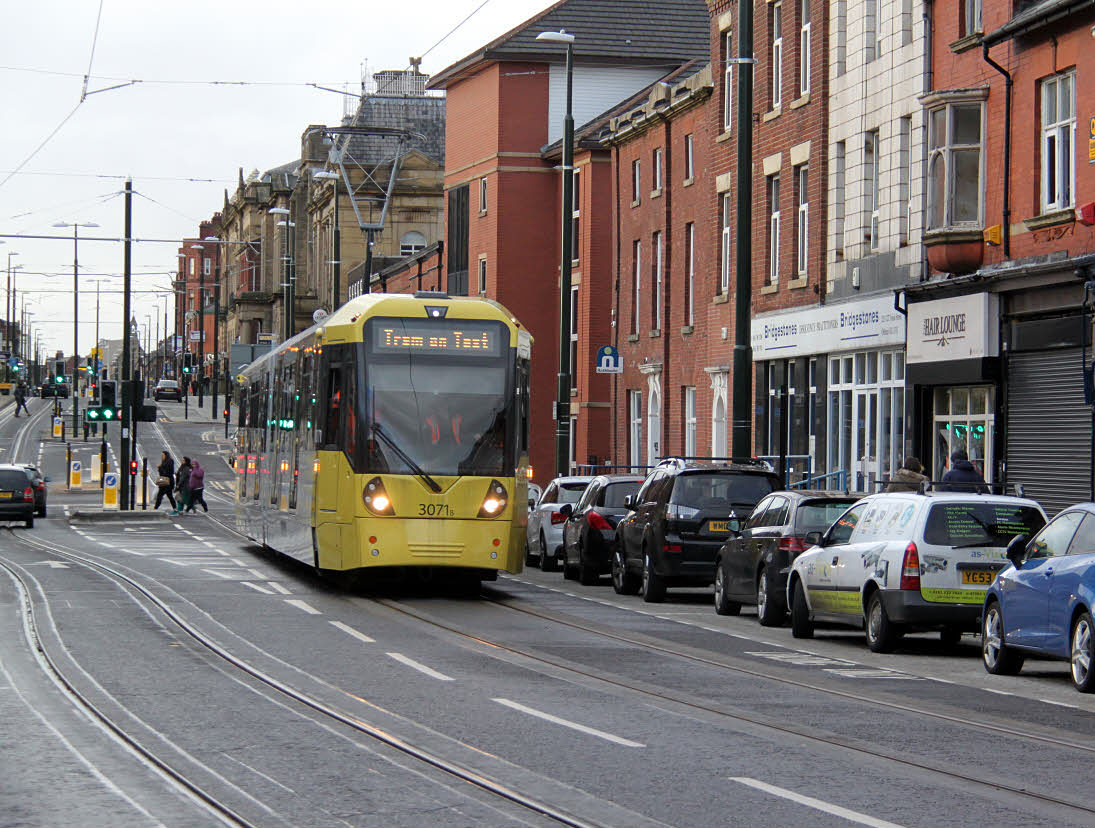 Tram on Union Street, Oldham, looking west Test running on the lower section, approaching Oldham Mumps.